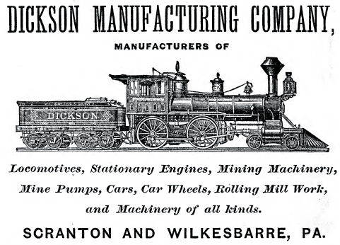 Advertisement of Dickson Manufacturing Company of Scranton, Pennsylvania, USA. Dickson was merged into American Locomotive Company (ALCO) in 1901.